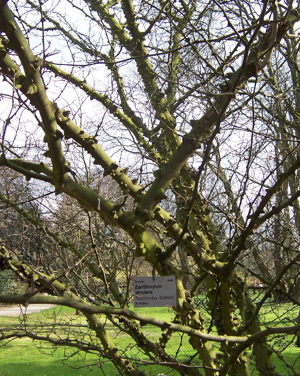 Zanthoxylum simulans, closeup of leafless plant